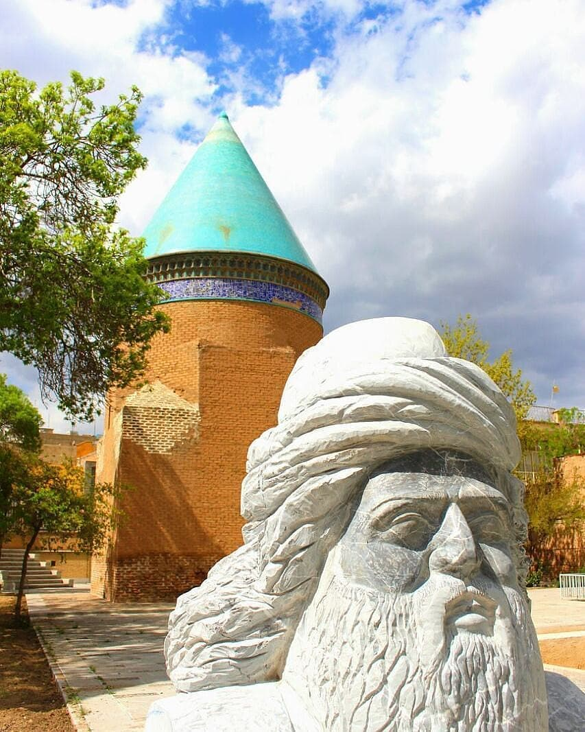 Statue of Hamdollah Mostofi beside his tomb